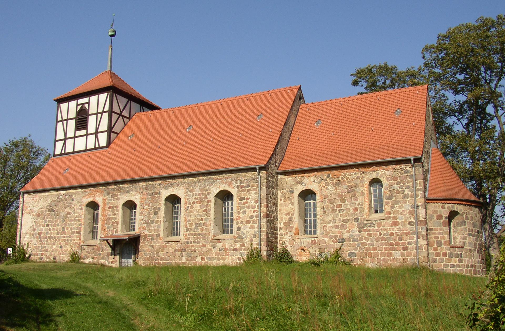 Church in Altlandsberg-Gielsdorf in Brandenburg, Germany